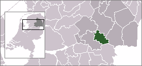 Location map of Dutch municipality in Drenthe. All images of this type by Mtcv have been released in the Public Domain by him